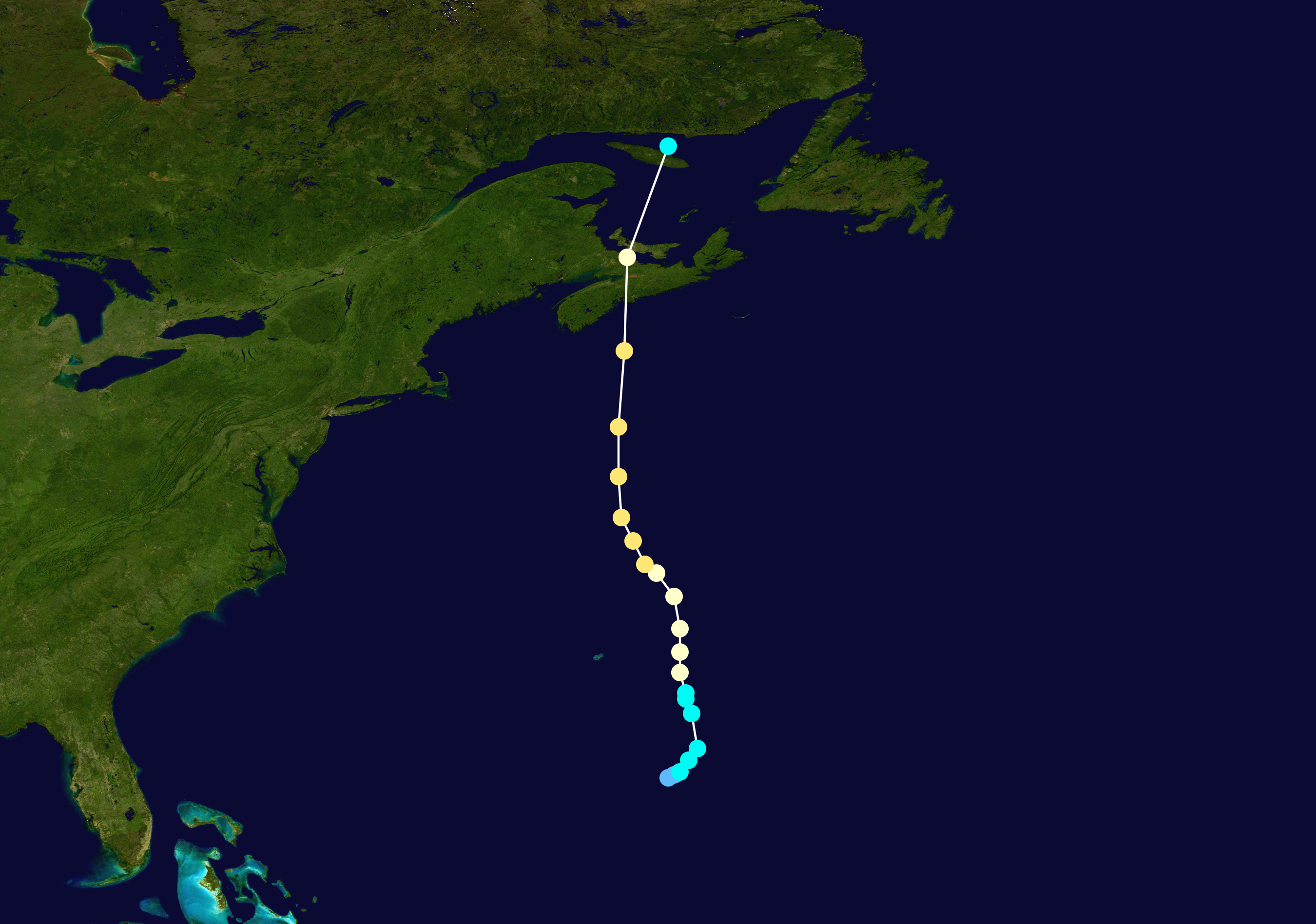 Track map of Hurricane Juan of the 2003 Atlantic hurricane season. The points show the location of the storm at 6-hour intervals. The colour represents the storm's maximum sustained wind speeds as classified in the Saffir–Simpson scale (see below), and the shape of the data points represent the nature of the storm, according to the legend below. Saffir–Simpson scale Tropical depression≤38 mph≤62 km/h Category 3111–129 mph178–208 km/h Tropical storm39–73 mph63–118 km/h Category 4130–156 mph209–251 km/h Category 174–95 mph119–153 km/h Category 5≥157 mph≥252 km/h Category 296–110 mph154–177 km/h Unknown Storm type Tropical cyclone Subtropical cyclone Extratropical cyclone / Remnant low / Tropical disturbance / Monsoon depression